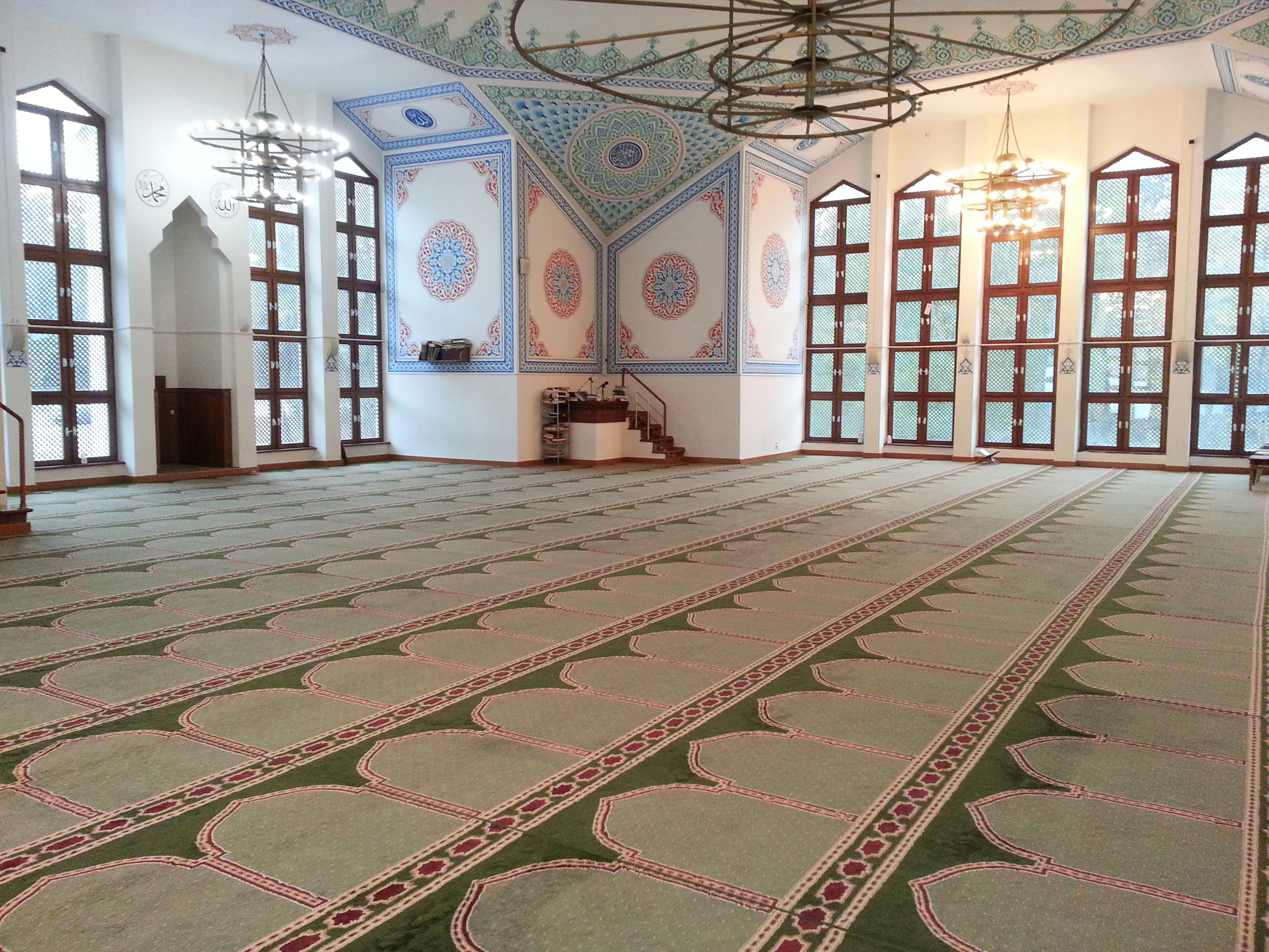 Mosque in the city of Rostov-on-Don, Russia, st. Furmanovsky 131